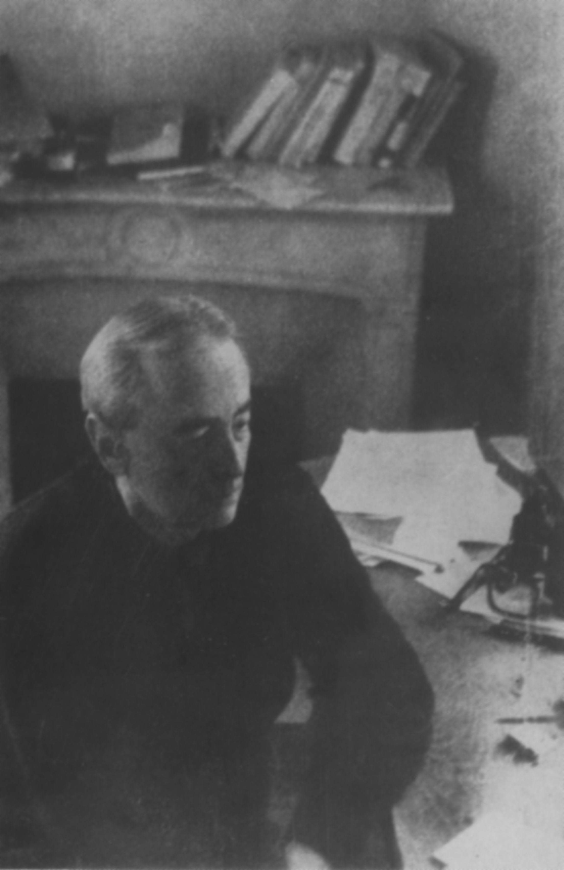 Photograph of Witold Gombrowicz.